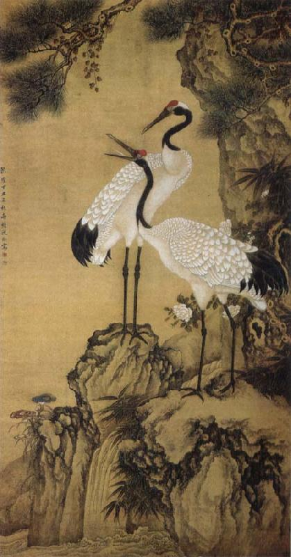 Painting by Shen Quan